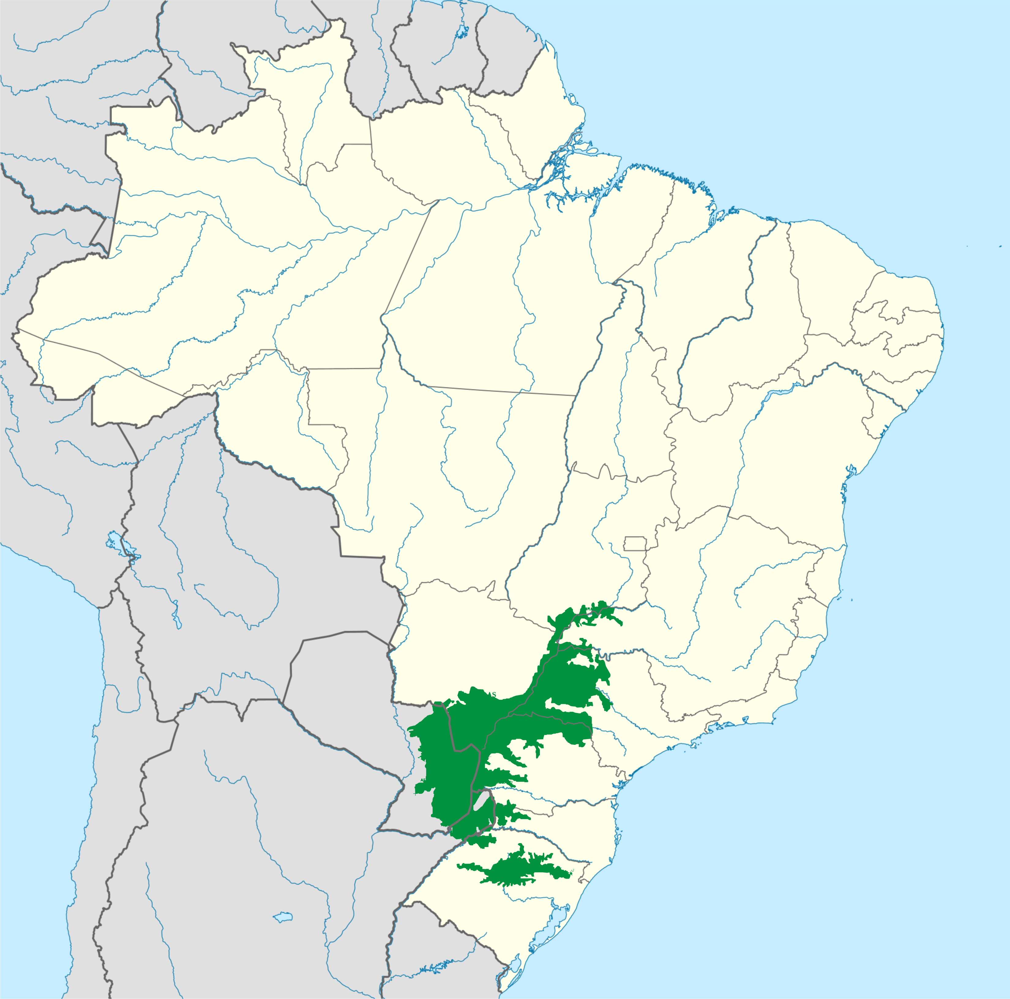 Approximate area of the Alto Paraná Atlantic Forest ecoregion — of the Atlantic Forest biome. As delineated by WWF. Parana/Parnaíba interior forests? NT0150?